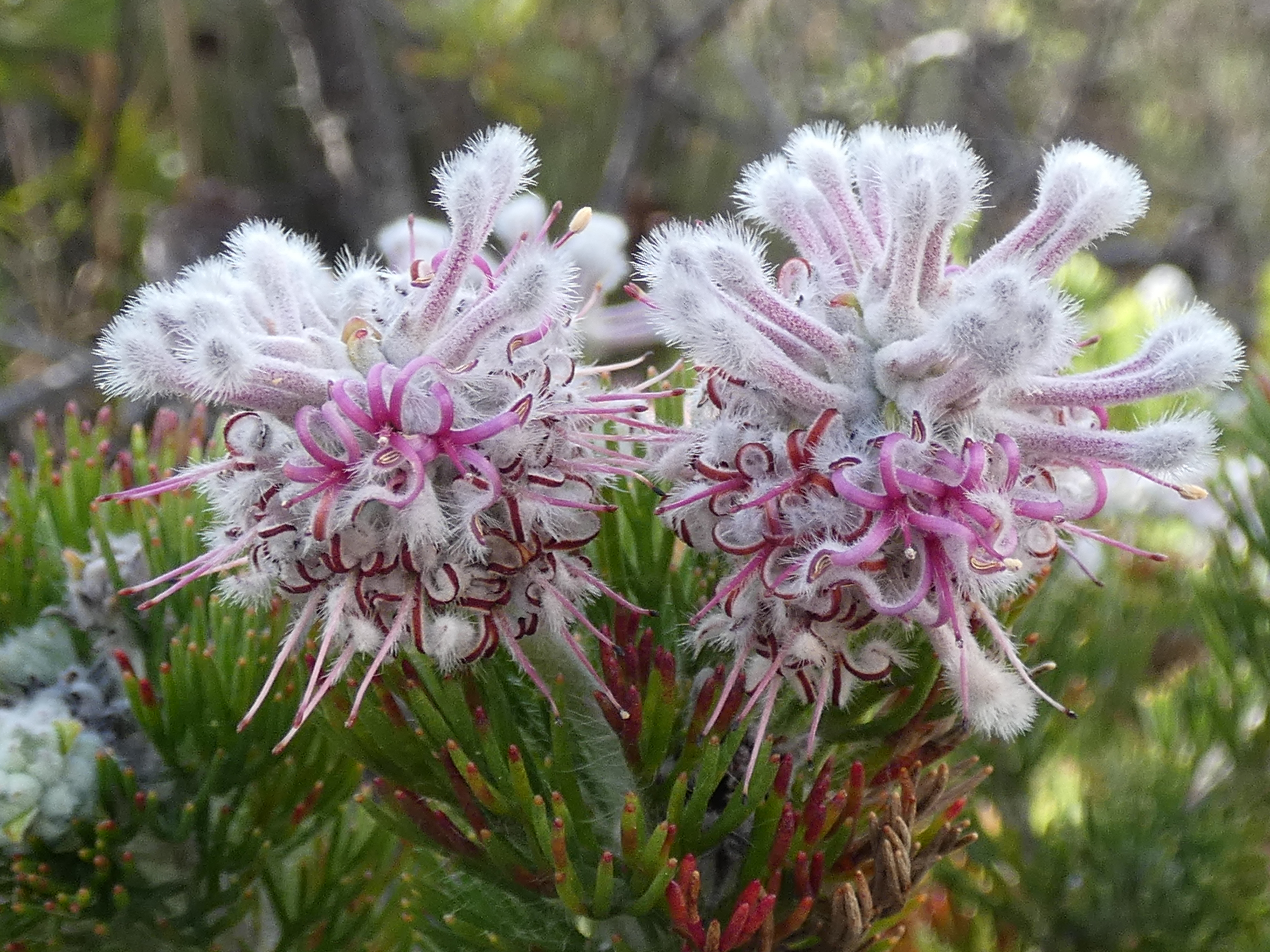 Bredasdorp Sceptre Paranomus abrotanifolius, photographed on the Potberg, SA